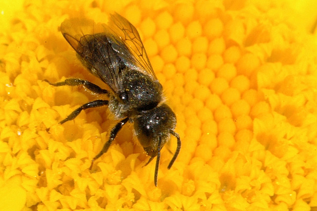 Hoplitis robusta from Commanster, Belgian High Ardennes .